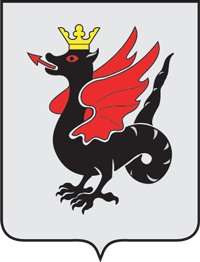 Kazan (Tatarstan), coat of arms (1990s)